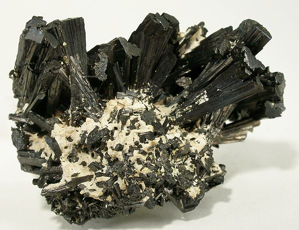 Enargite Locality: Pasto Bueno District, Pallasca Province, Ancash Department, Peru (Locality at ) Size: 5.0 x 3.4 x 3.1 cm. A striking, very aeshetic row of highly lustrous and striated, metallic-gray enargite crystals from the Pasto Bueno District of Peru. The sharp crystals are all fully terminated and pristine. This is an outstanding example of the species and locale, as enargite in this quality is rare from Pasto Bueno, which is much better known for its world-class hubnerite and rhodochrosite specimens. Ex. Tarnowski Collection.